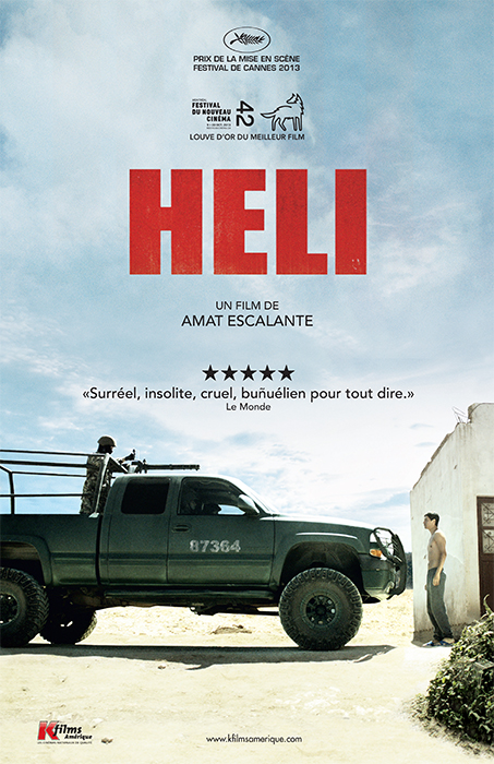 Poster of the movie Heli (Q12155649)